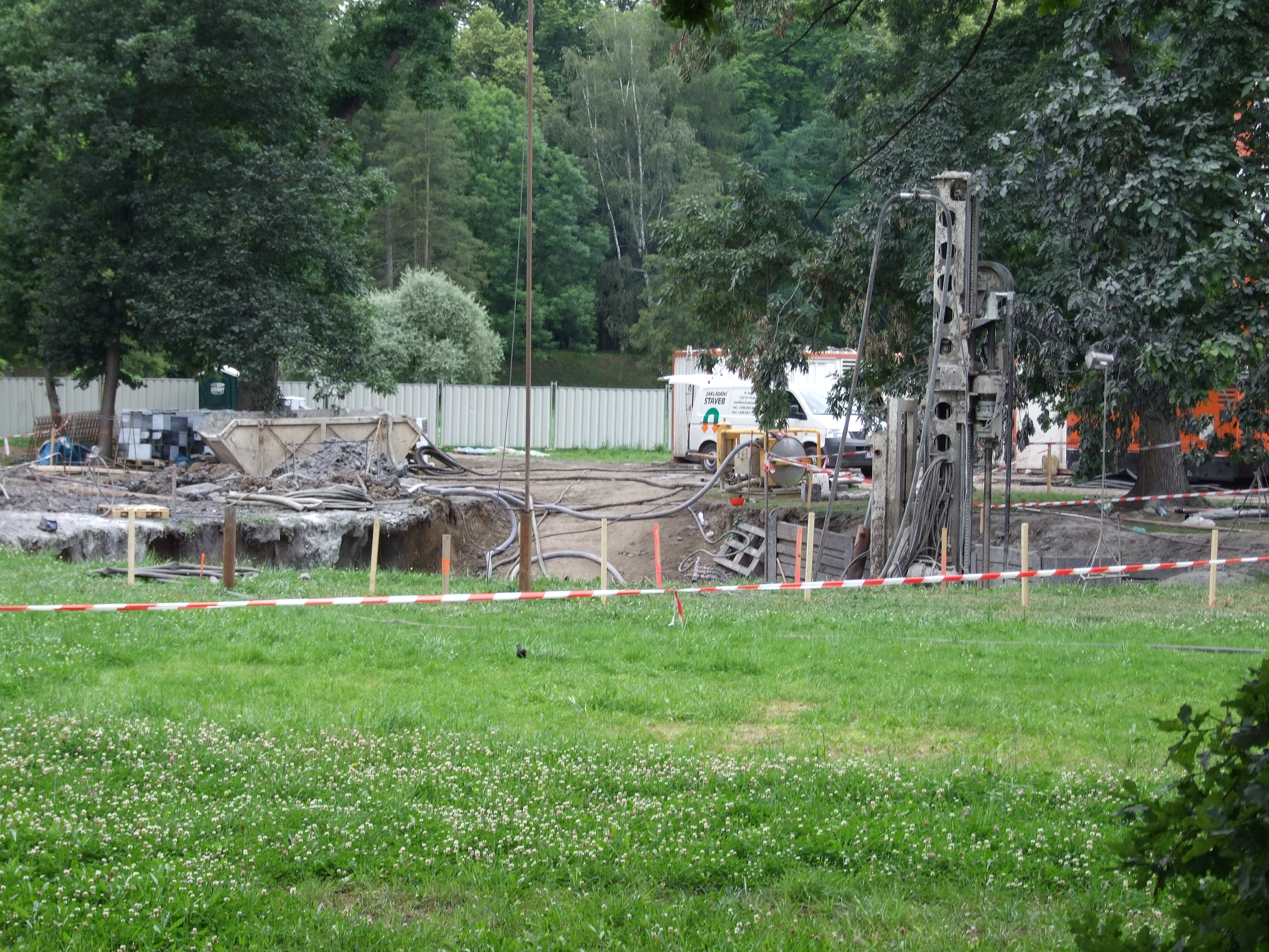 Hole in Stromovka park made during an error in boring Blanka tunel, being constructed underneathhelp